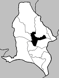 Location of Falagueira parish in Amadora municipality. Map created by Brian Boru in December 2005.